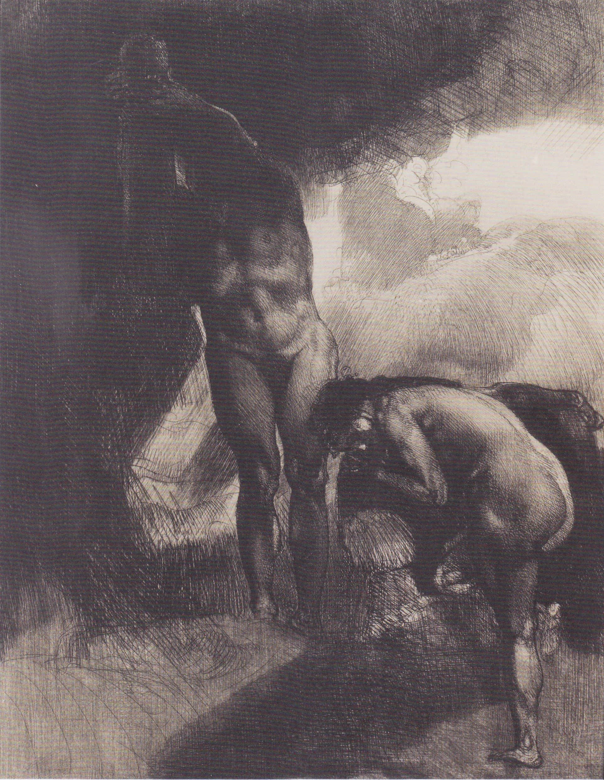 Illustation for "Paradise Lost" by John Milton"